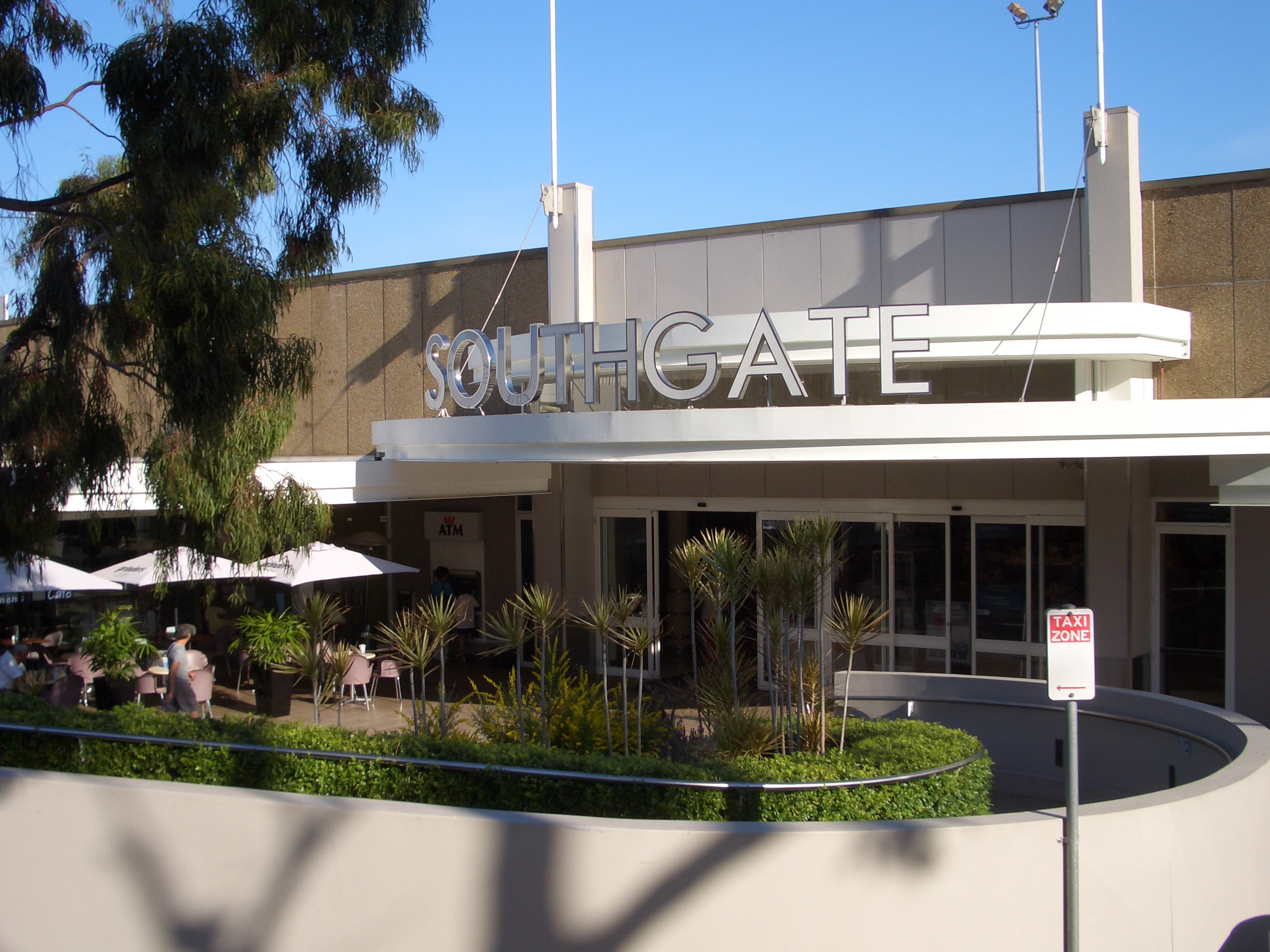 Southgate Shopping Centre, Sylvania, Sydney, Australia